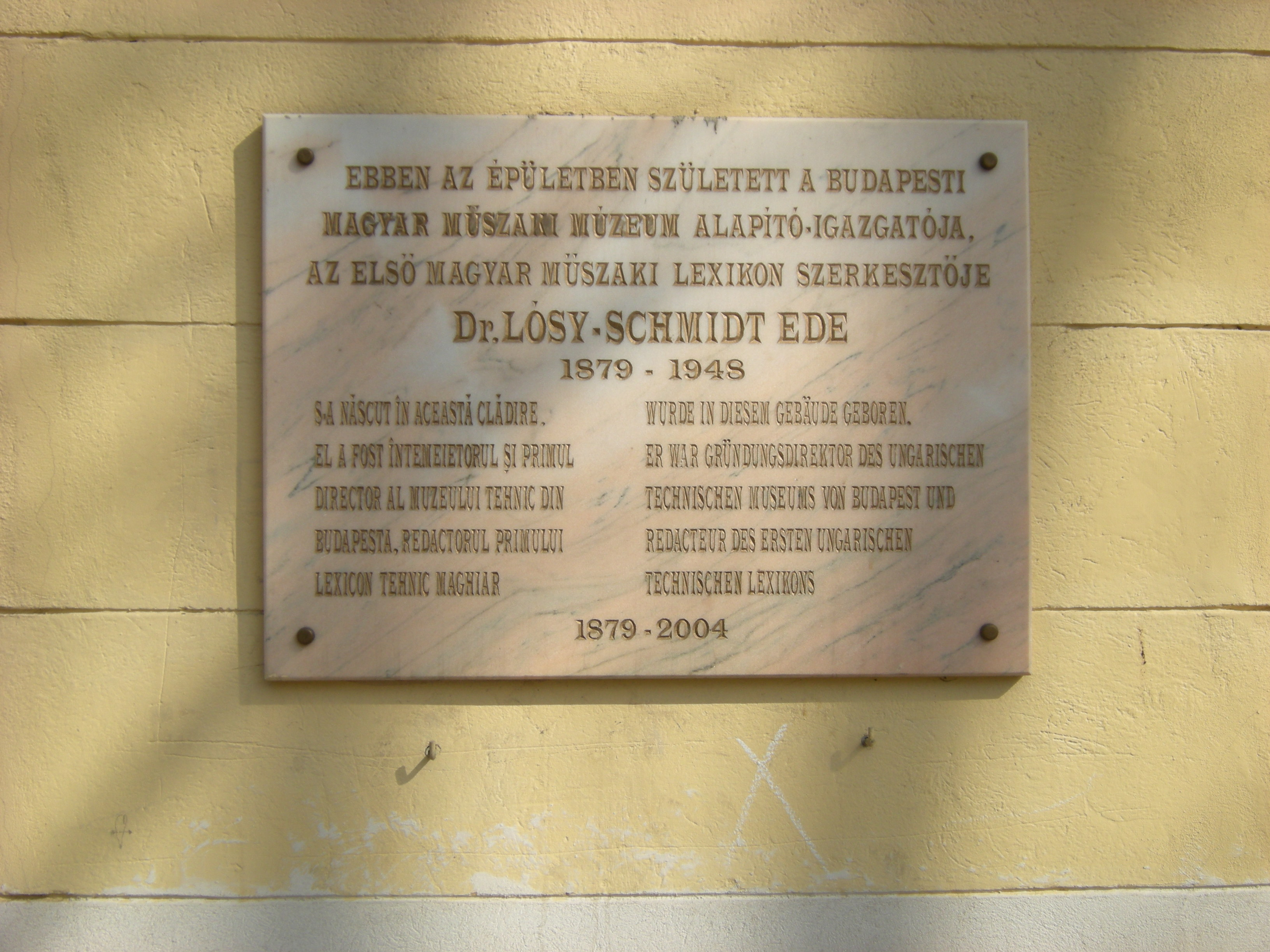 Lósy-Schmidt Ede háromnyelvű emléktáblája Sepsiszentgyörgyön a szülőházán